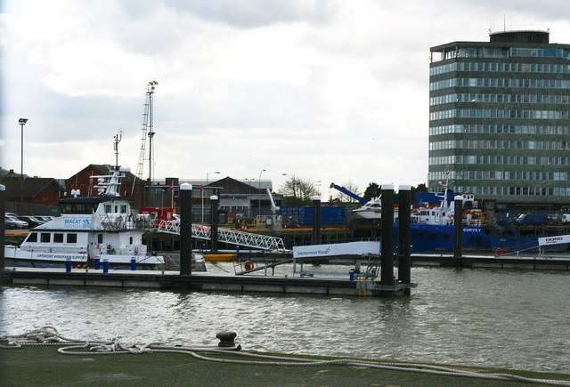 Dong at the Fishdock